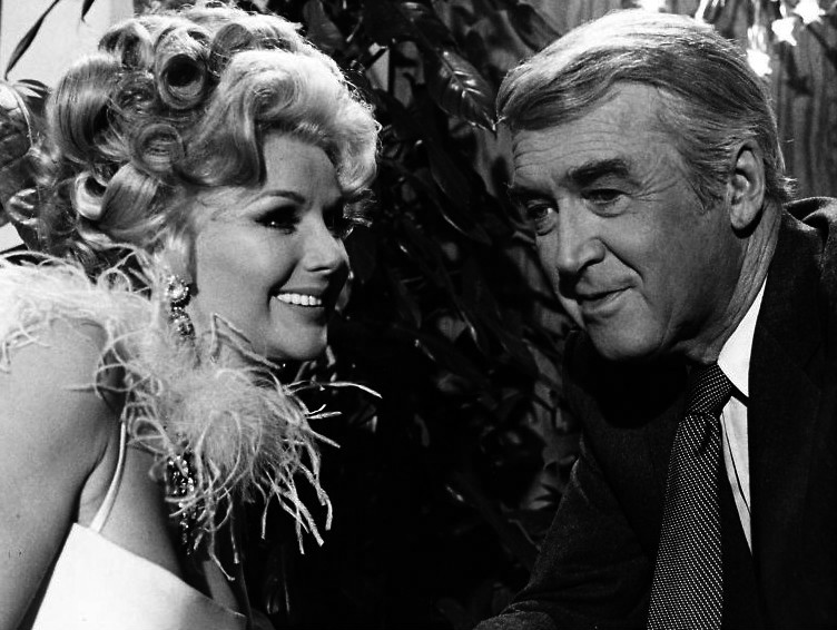 Photo from the television program The Jimmy Stewart Show. Stewart meets an attractive actress (Chanin Hale) while appearing on a panel show.